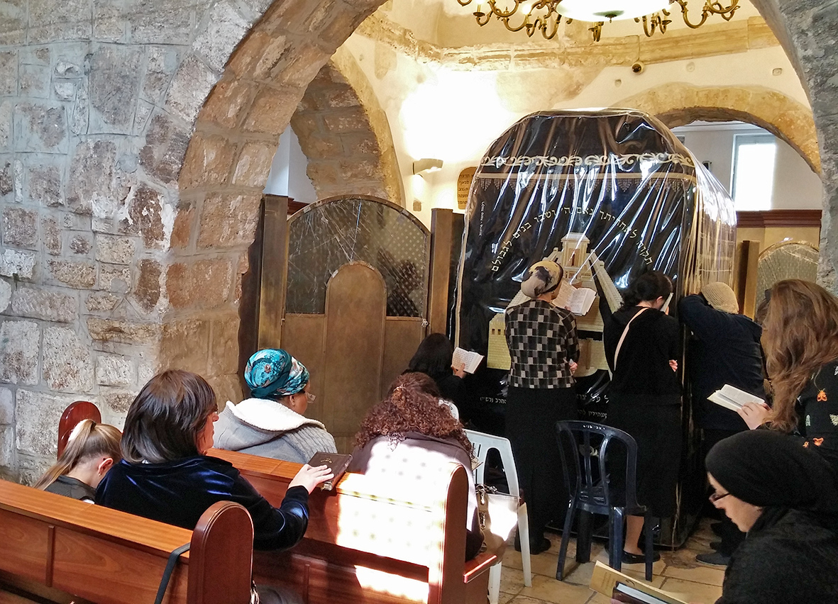 Rachel Tomb in Bethlehem